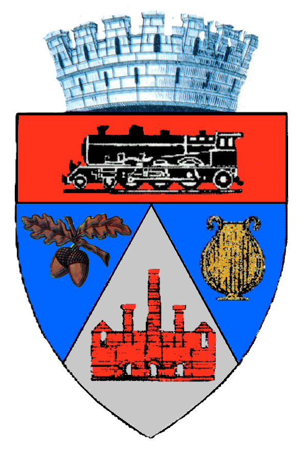 Coat of arms of Reșița, Caraș-Severin County, Romania.